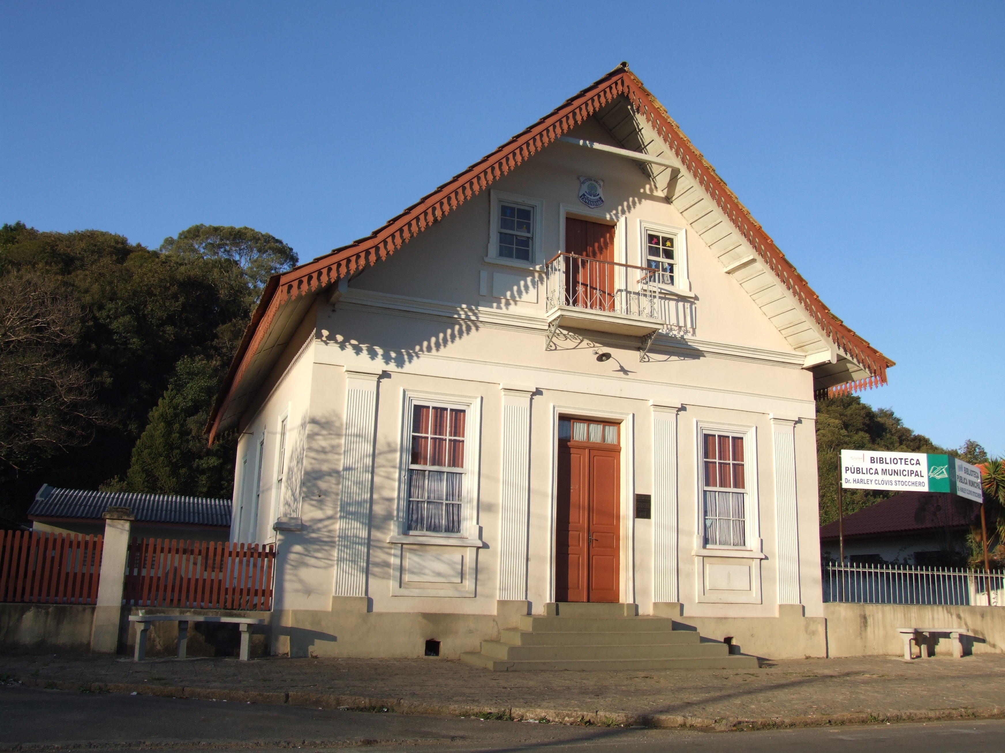 Harley Clóvis Stocchero Municipal Public Library